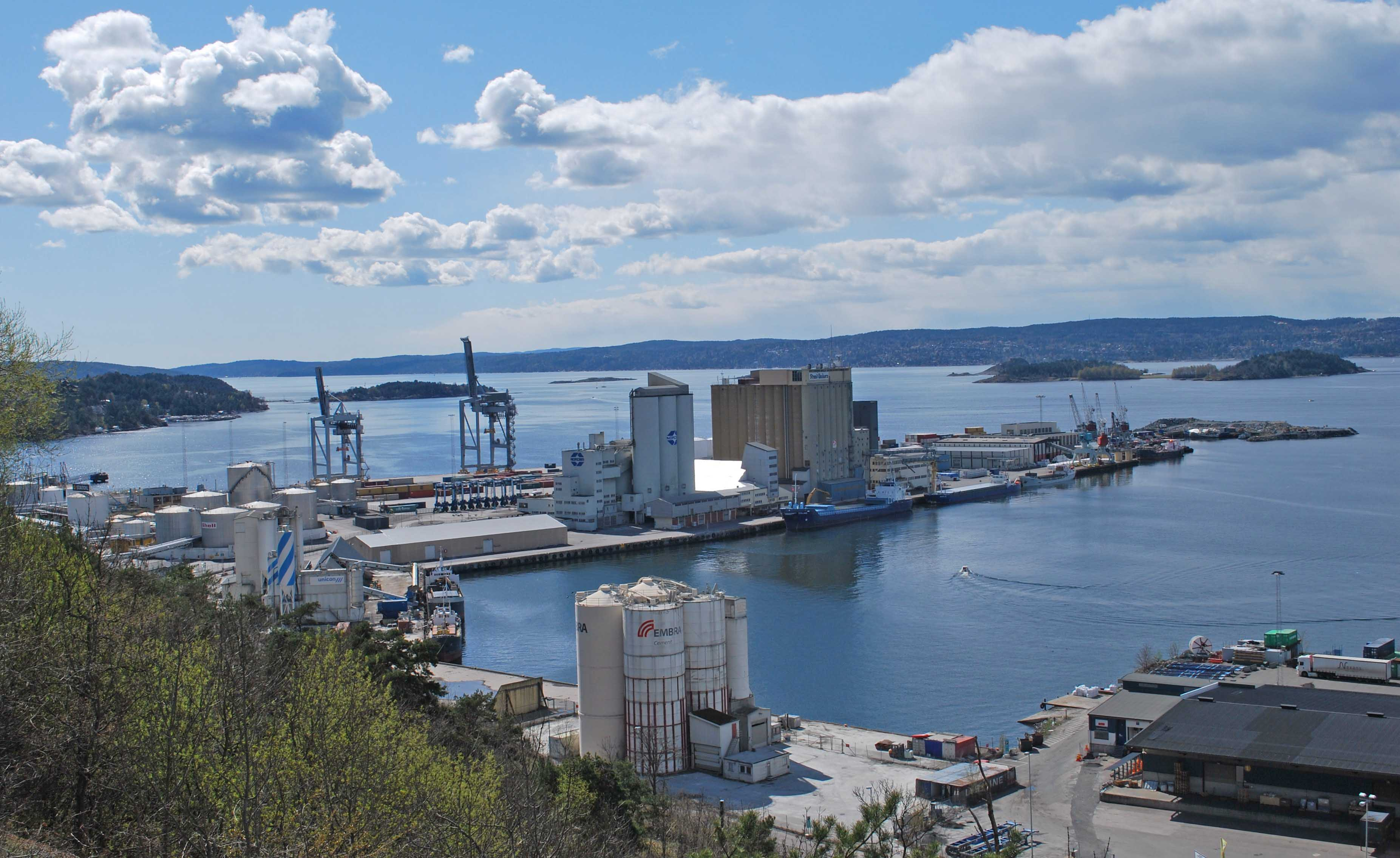 Sjursøya port terminal, Oslo, seen fra former cafe Utsikten, Ekebvergskråningen